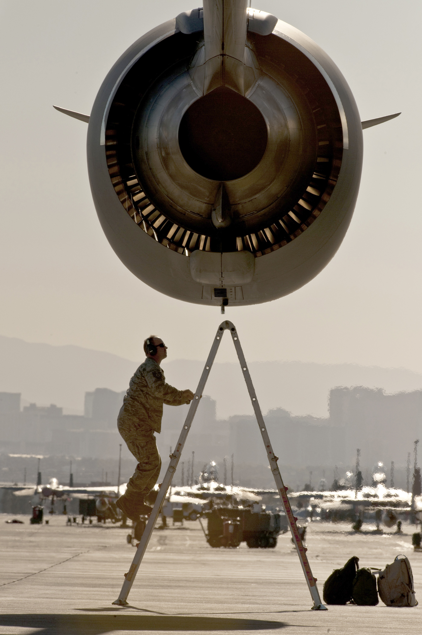 Tech. Sgt. Zachariah Pock climbs a ladder to conduct post-flight checks on a C-17 Globemaster III engine during the mobility air forces exercise at Nellis Air Force Base, Nev., on Nov. 17, 2010. Pock is a crew chief with the 62nd Aircraft Maintenance Squadron at Joint Base Lewis-McChord, Wash.